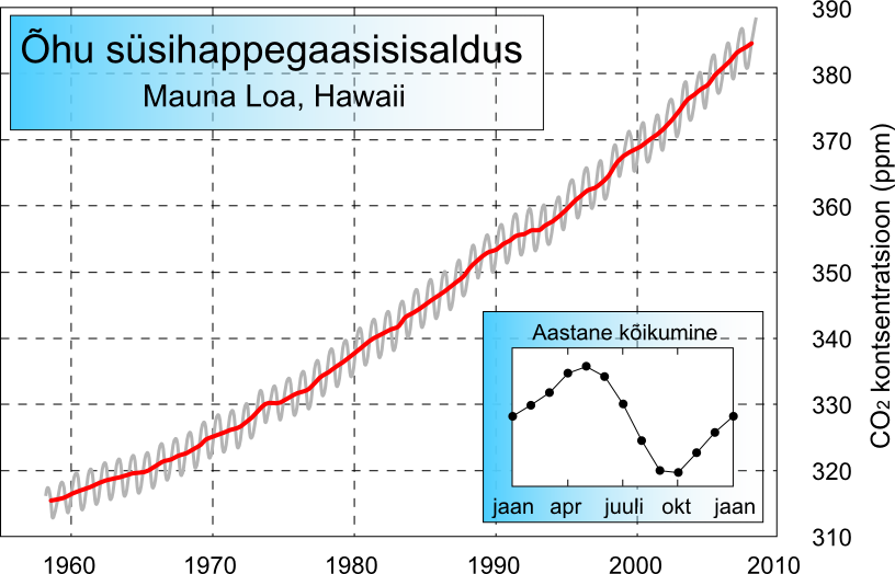 Chart in Estonian of atmospheric CO2 concentrations measured at the Mauna Loa Observatory.